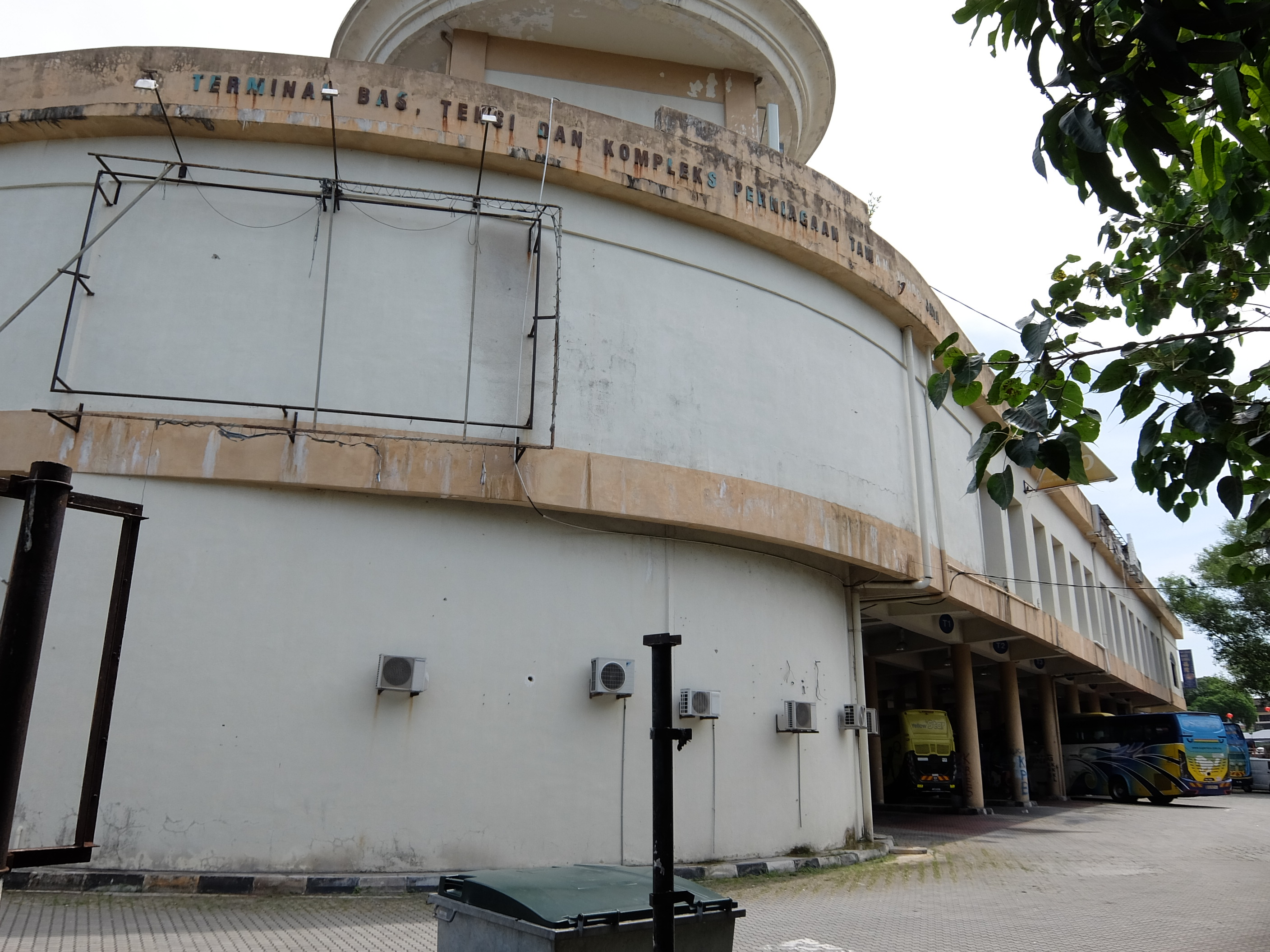 Taman Johor Jaya Bus and Taxi Terminal, Johor Jaya, Johor Bahru, Johor, Malaysia